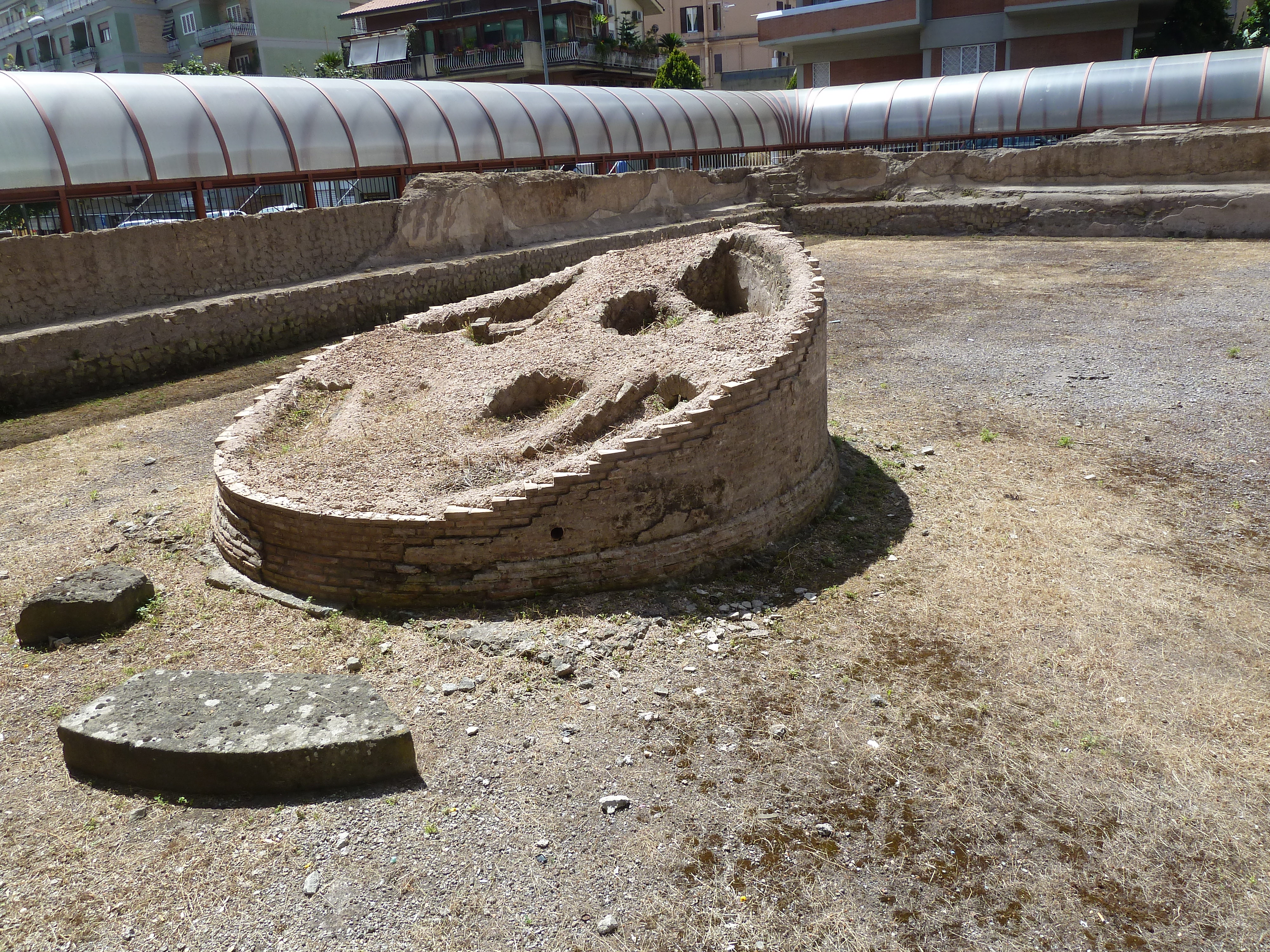 Piscina Via Cesare Baronio, Roma, Italia. Second-Fourth Century.description